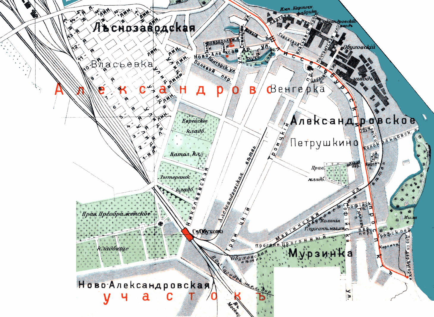 The map of 'Alexandrovsky Uchastok' - one of the closest suburban districts of Petersburg in Russia Source Весь Петроград. Справочник за 1917 год. Ves Petrograd for 1917